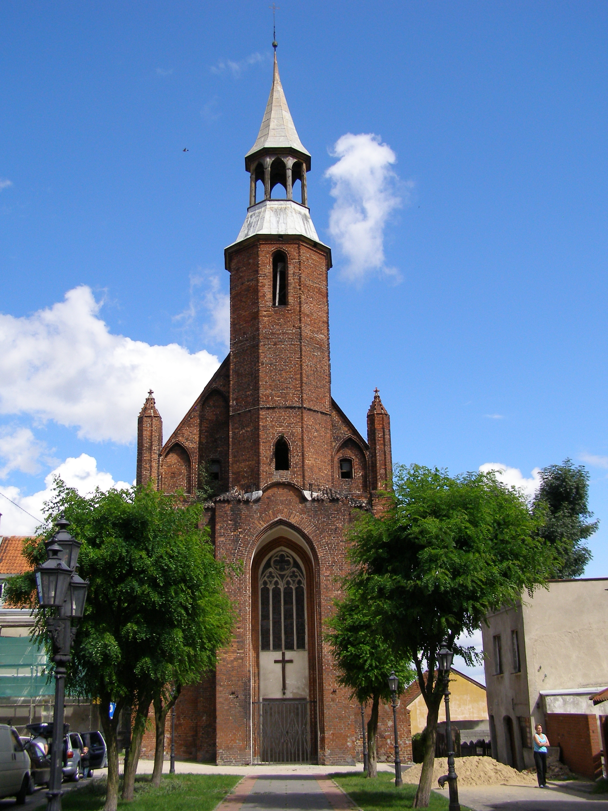 Tczew - St. Stanislaus Kostka church